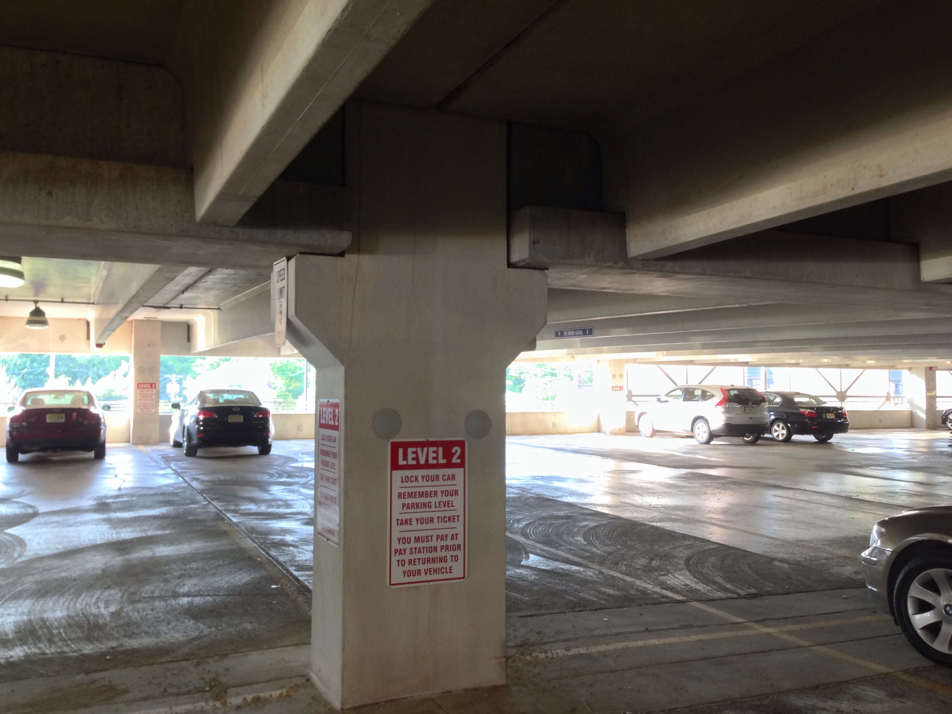 Precast parking structure showing an interior column with haunches which support girders below the double-tee structural floors. The two circles at the middle of the column are covers to close the holes that are part of the precast concrete lifting anchor system.